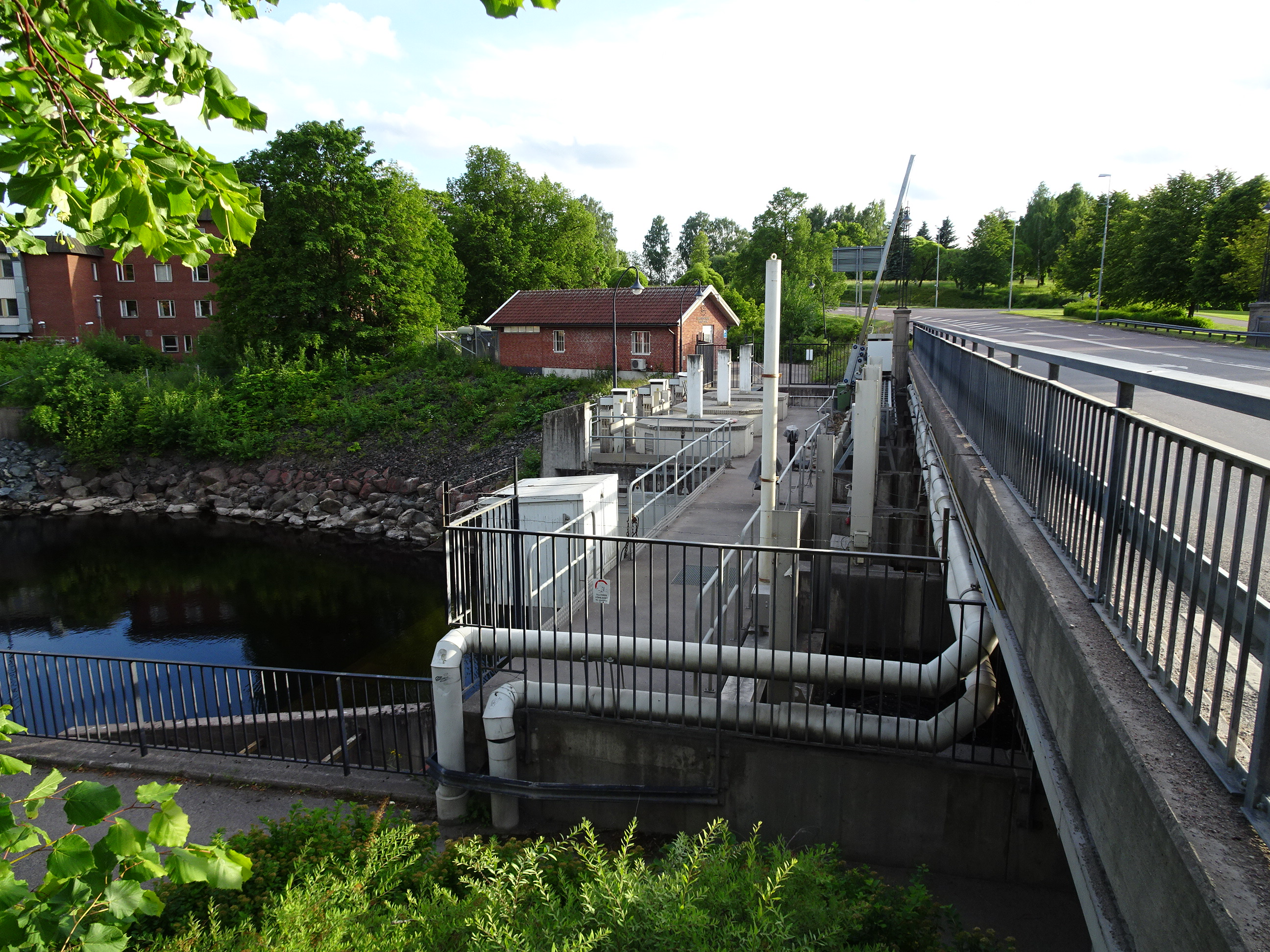 Smedjebackens hydroelectric power station in Kolbäcksån. Located in Smedjebacken, Sweden.